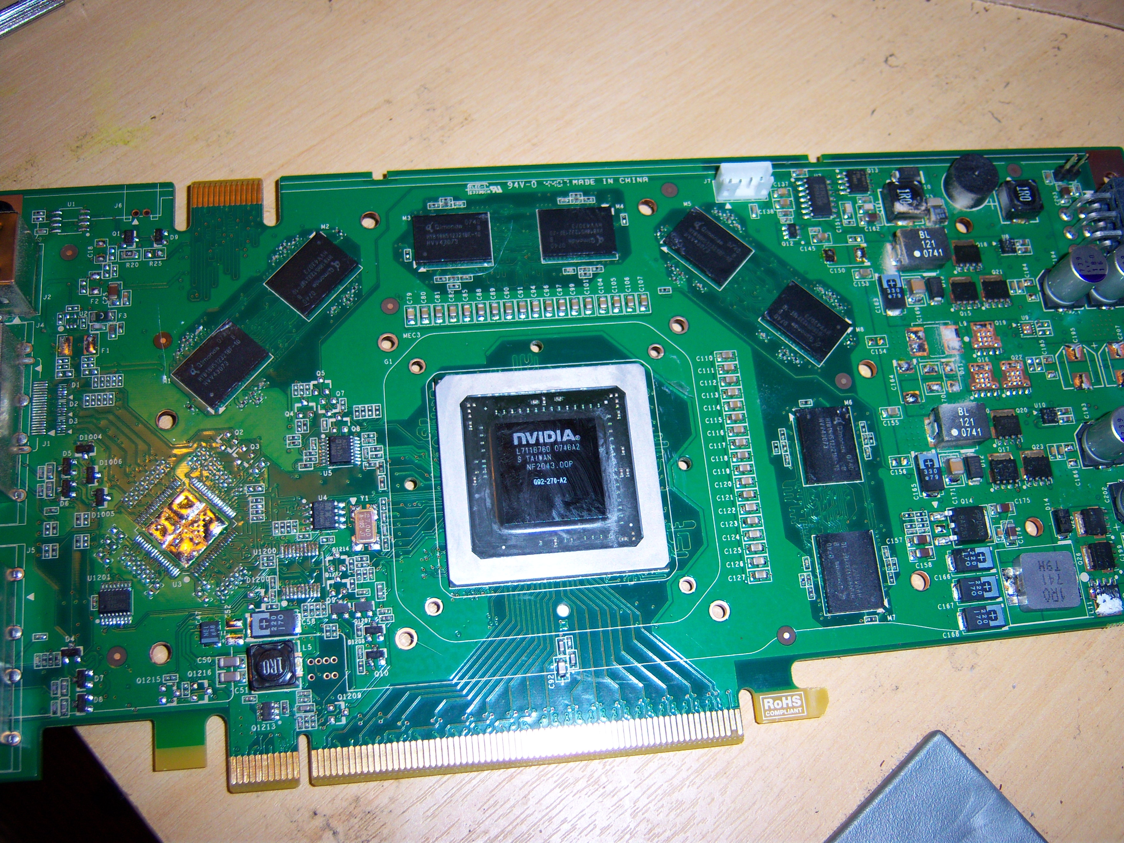 8800GT with cover removed.